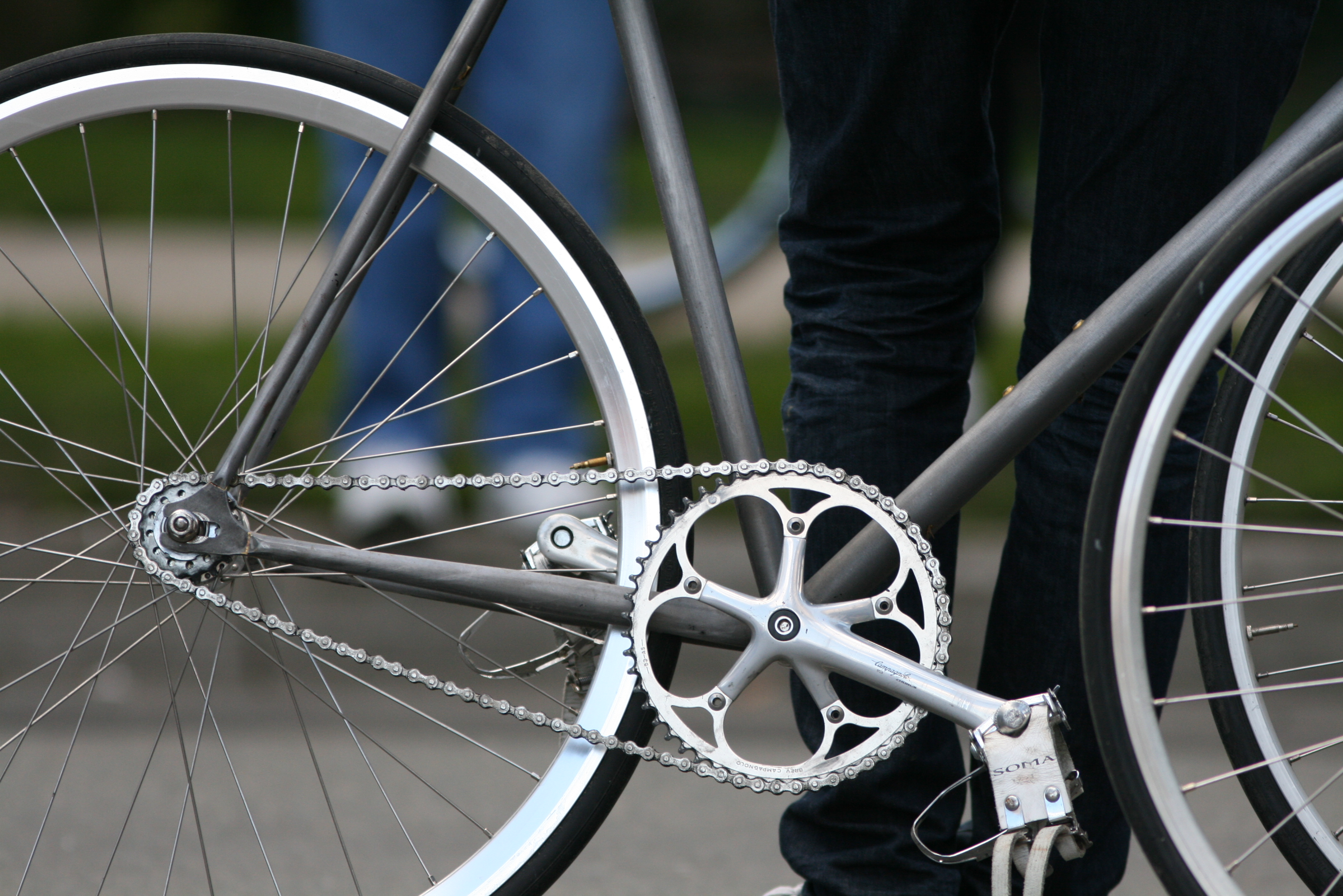 Fixed gear riders watching the Tour of California.